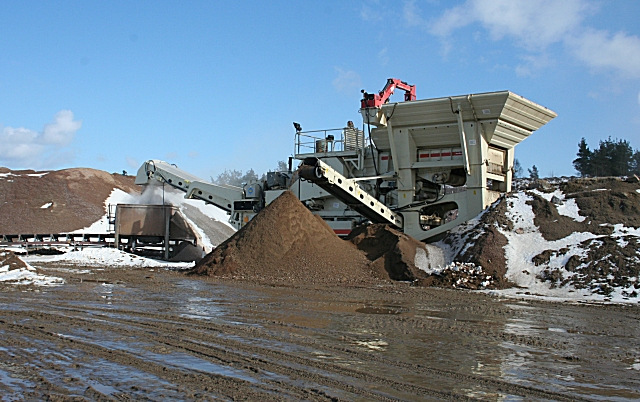 Craigenlow Quarry: Mobile Crusher This impressive machine can be moved around the quarry to make the most efficient use of materials. It is the largest mobile rock crushing machine in Scotland. The crushed rock is carried out on the conveyor belt, which is not mobile, and dust and small fragments are ejected into spoil heaps.